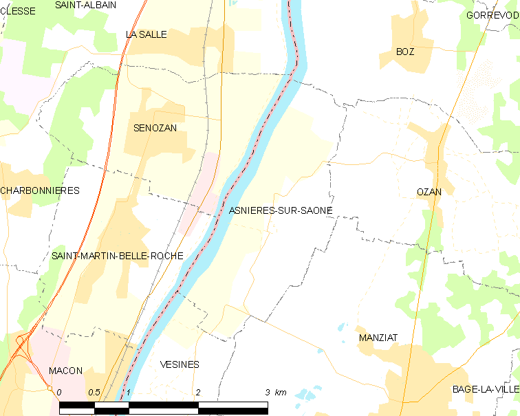 Map of French commune: Asnières-sur-Saône Map commune FR insee code 01023.png